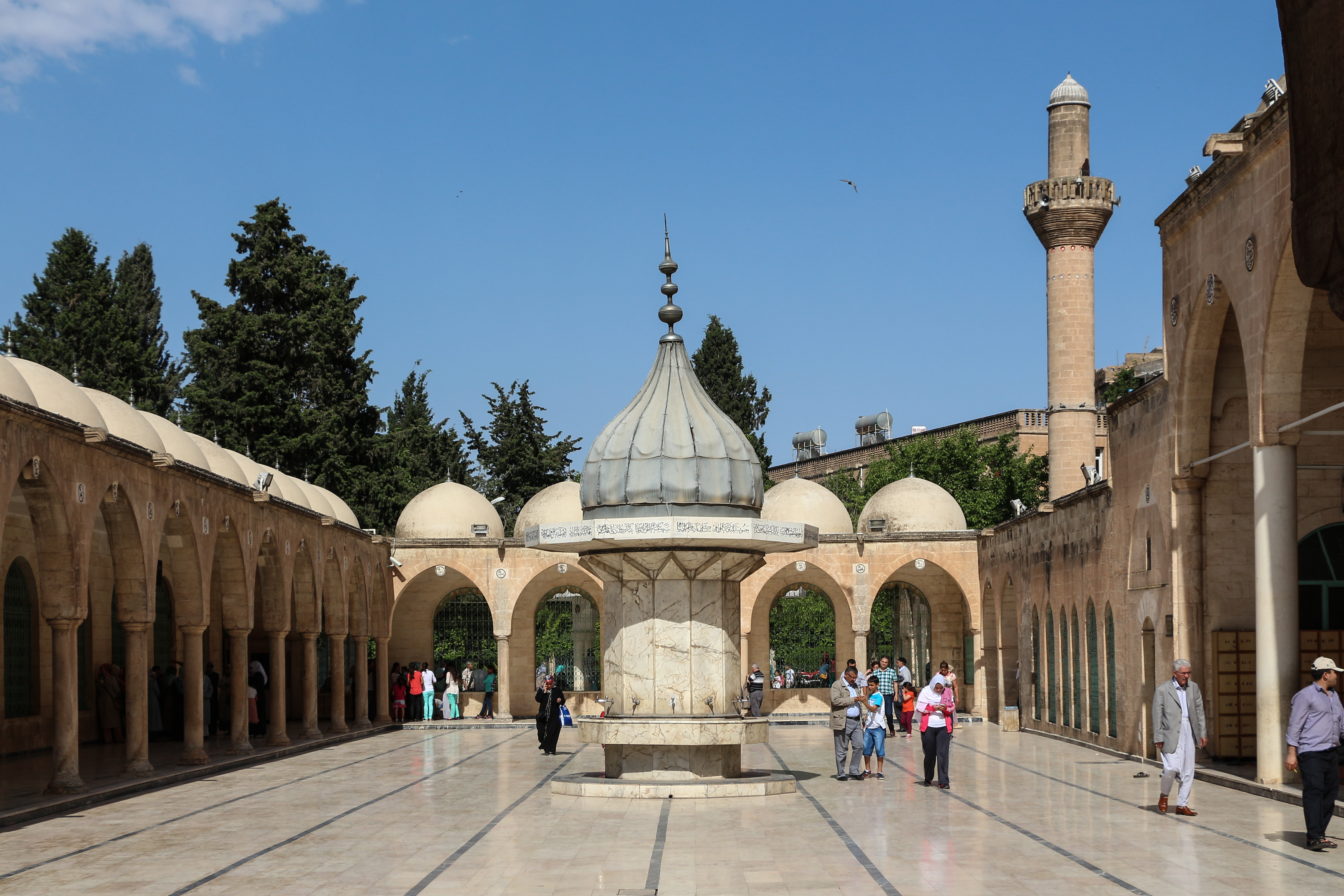 Main courtyard of the Mevlid-i Halil Mosque, Şanlıurfa, Turkey